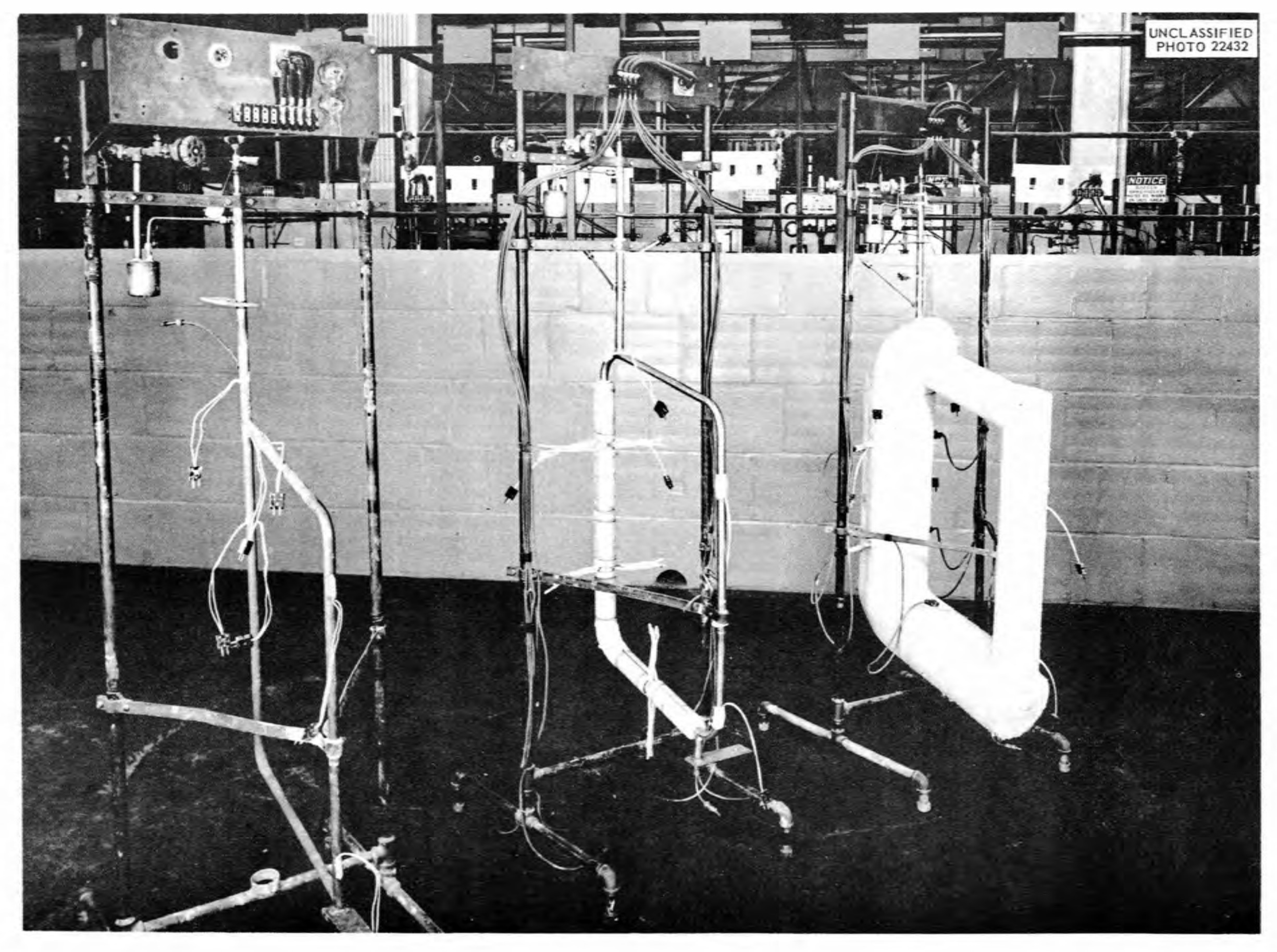 Natural-convection corrosion test loops used during the Aircraft Nuclear Propulsion project to down-select workable fuel/material combinations. Molten salt circulates in the heated loop made of a certain metal. Corrosion and mass transfer can be studied based on their performance. From ORNL-2348